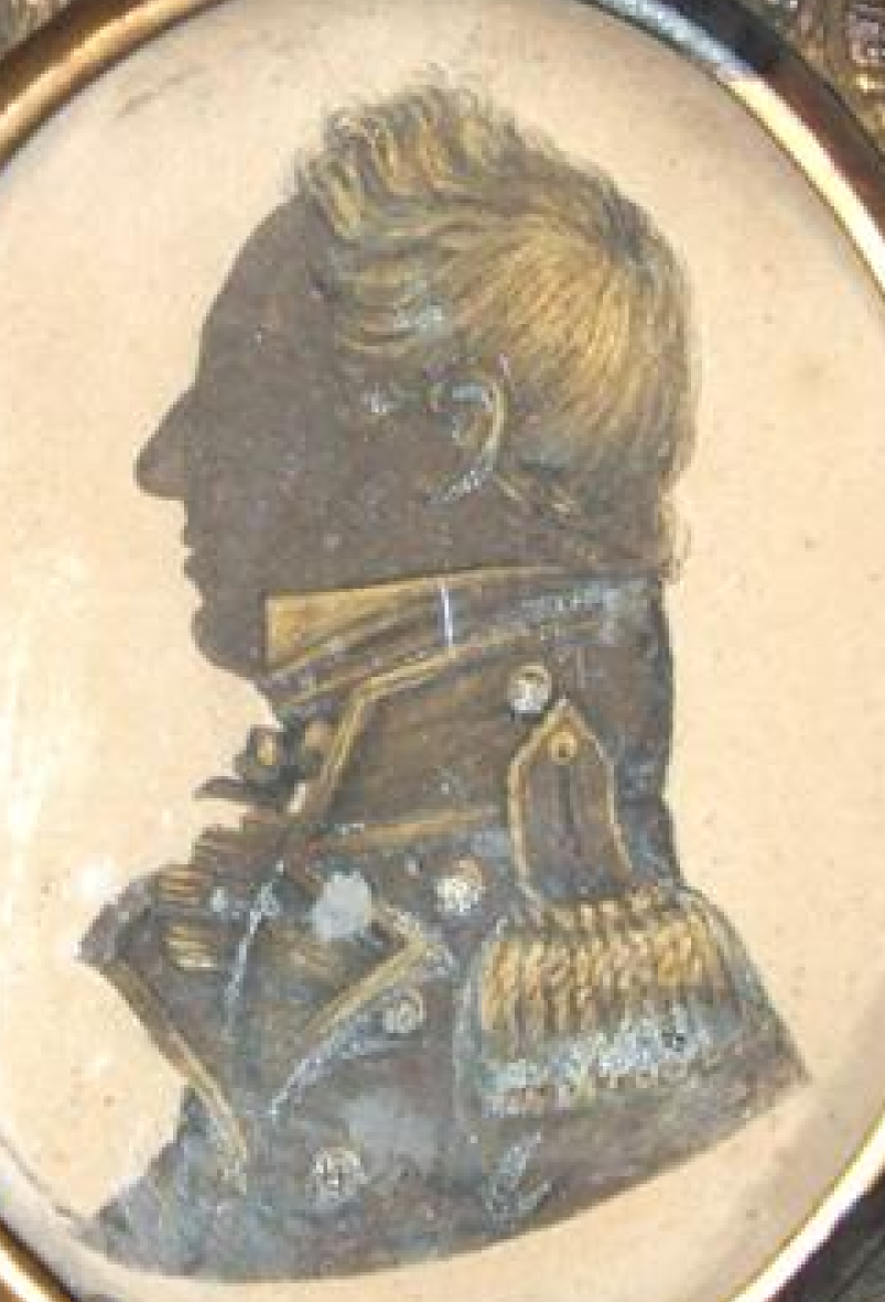 A silhouette painting of Captain Jeremiah Coghlan, RN